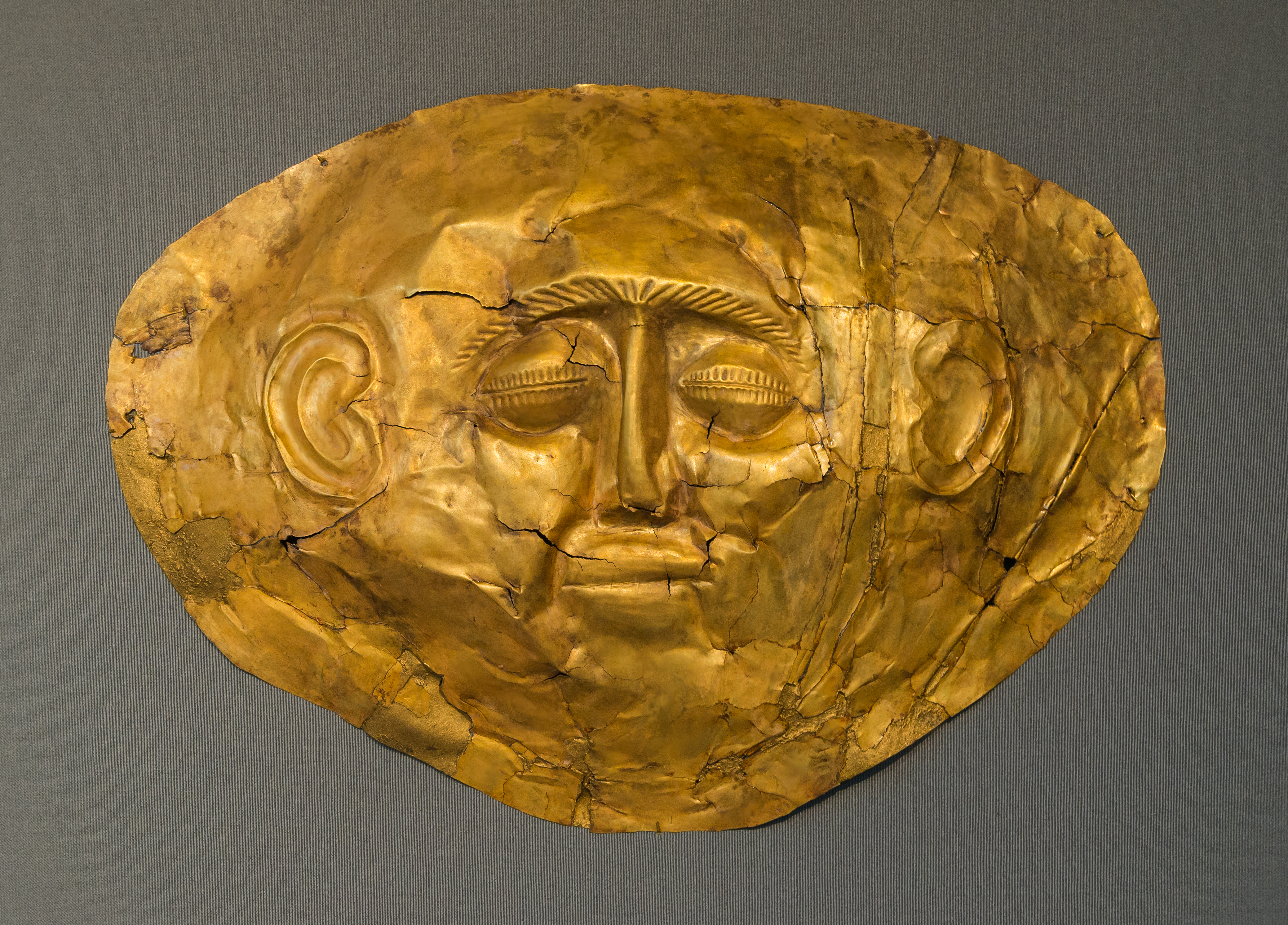 One of the funeral masks from Mycenae, gold, 16th-century BCE, Athens, Greece.